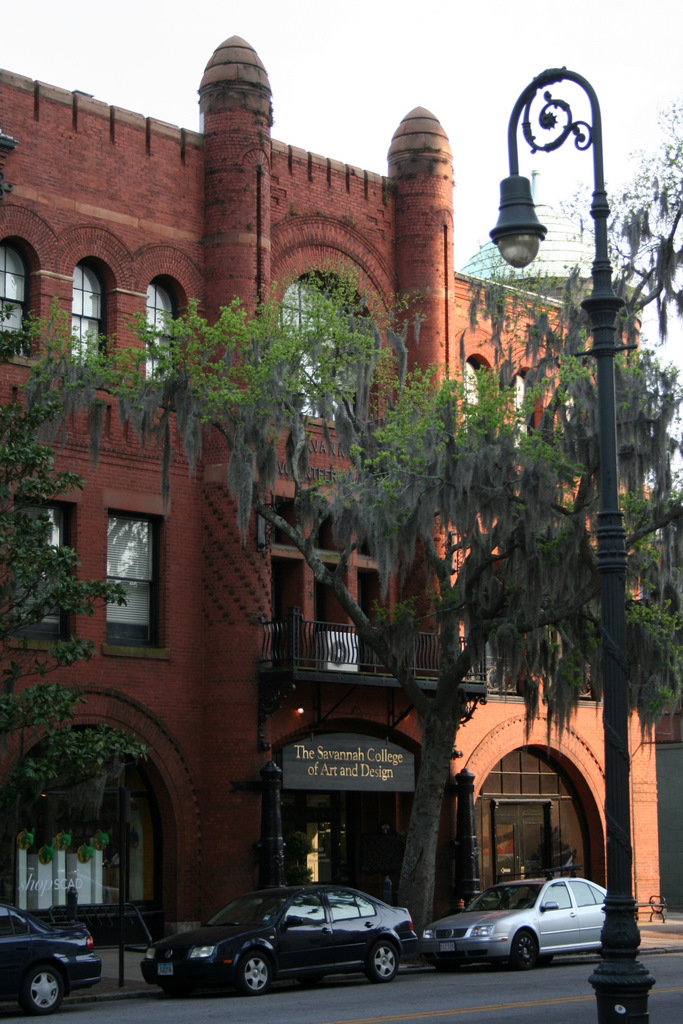 Poetter Hall at the Savannah College of Art and Design